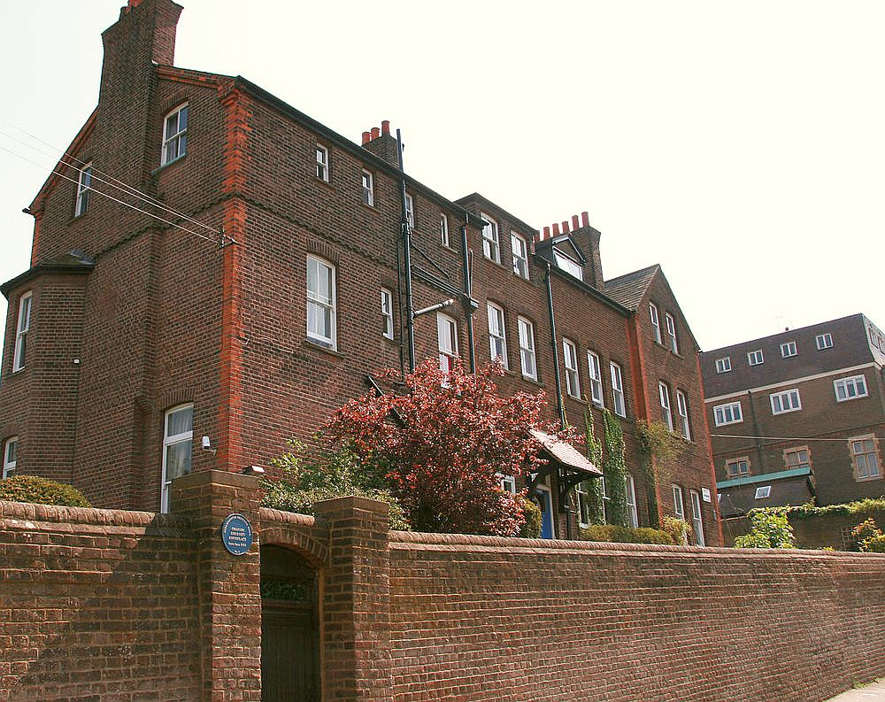 St. John’s, a boarding house of Berkhamsted School in Berkhamsted, Hertfordshire in the United Kingdom. The writer Graham Greene was born here in 1904 when his father was housemaster.